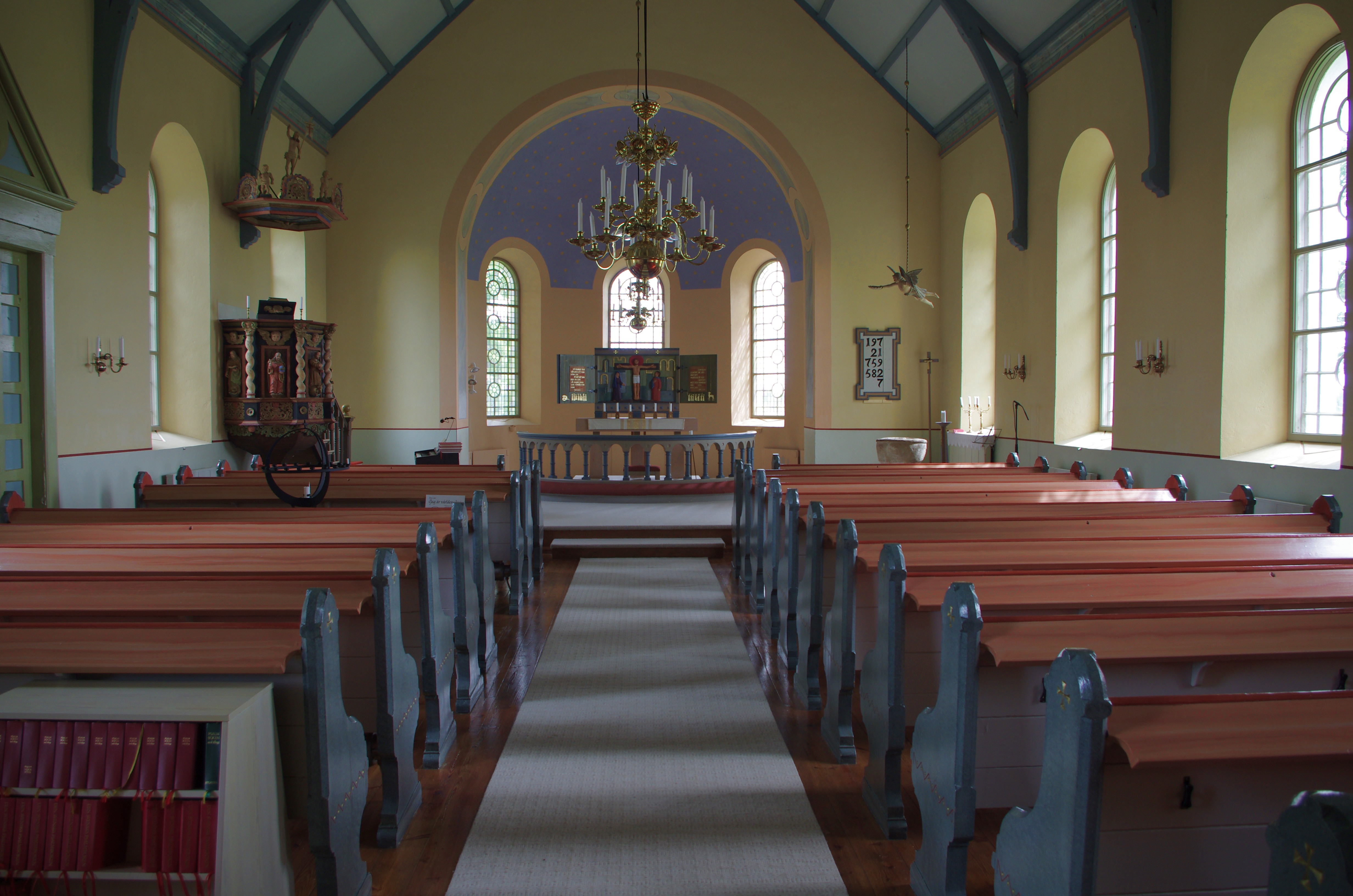 Kymbo church in Västergötland, Sweden.